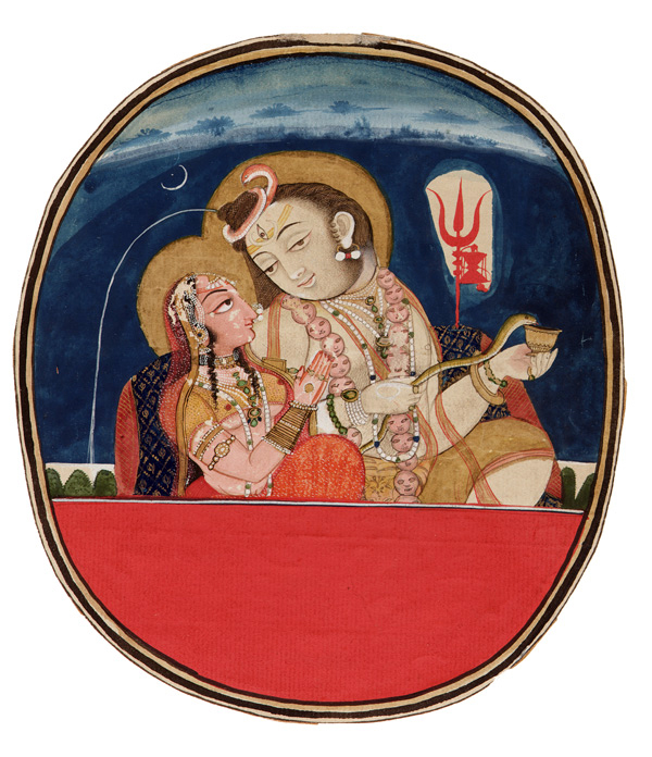 Shiva and Parvati as depicted in a painting